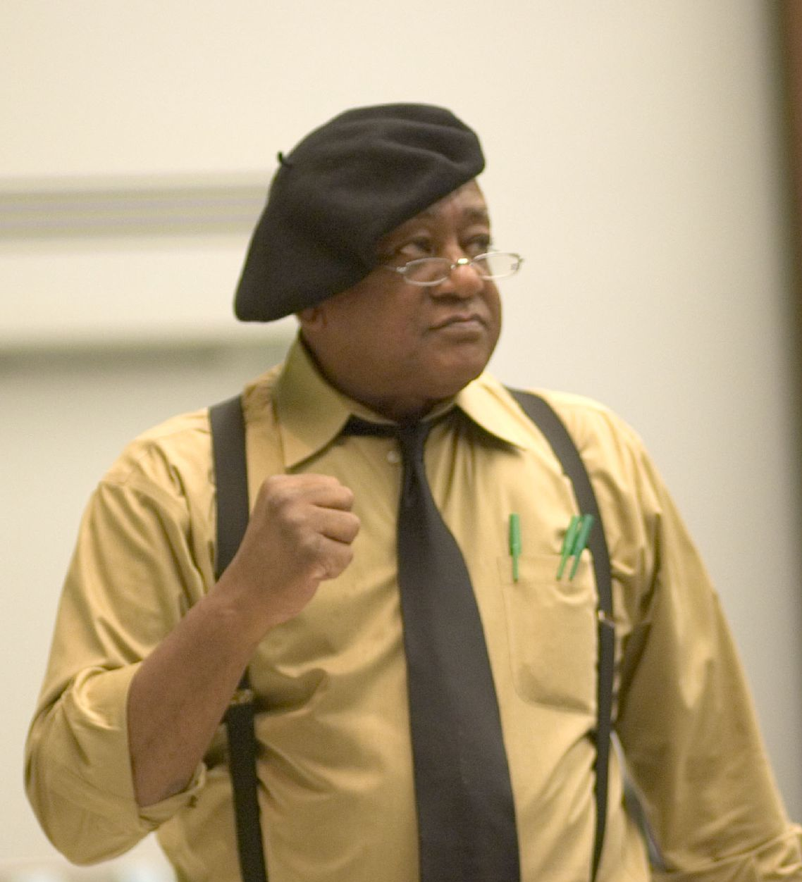 Bobby Seale This file has been extracted from another file: Bobby Seale.jpg This is a retouched picture, which means that it has been digitally altered from its original version. Modifications: cropped. The original can be viewed here: Bobby Seale.jpg: . Modifications made by Beao.